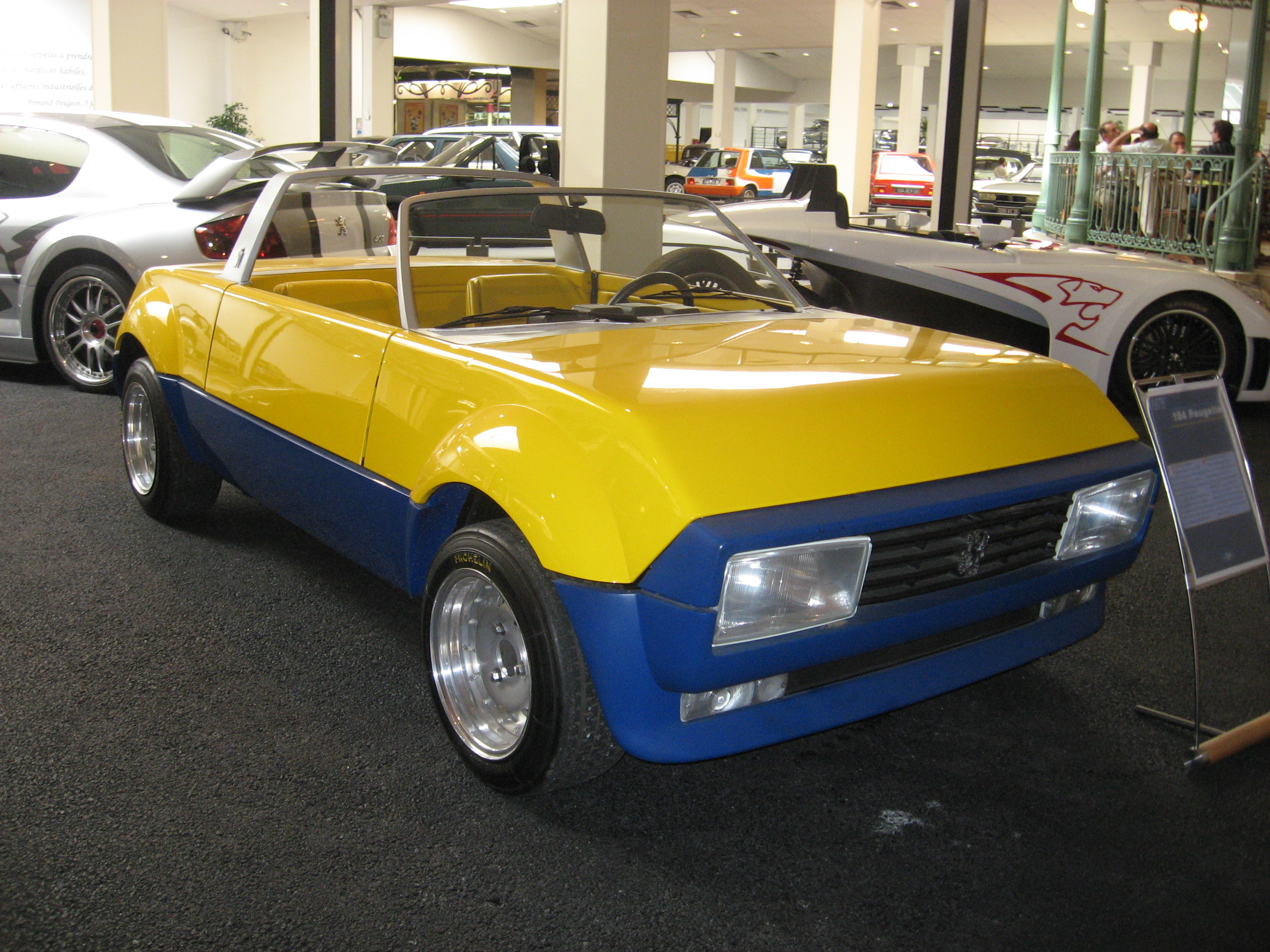 Peugette (roadster prototype built on the 104 ZS platform) at the Musée de l'Aventure Peugeot in Sochaux, France.